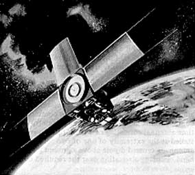 Illustration of a NASA ITOS series satellite in orbit around the Earth